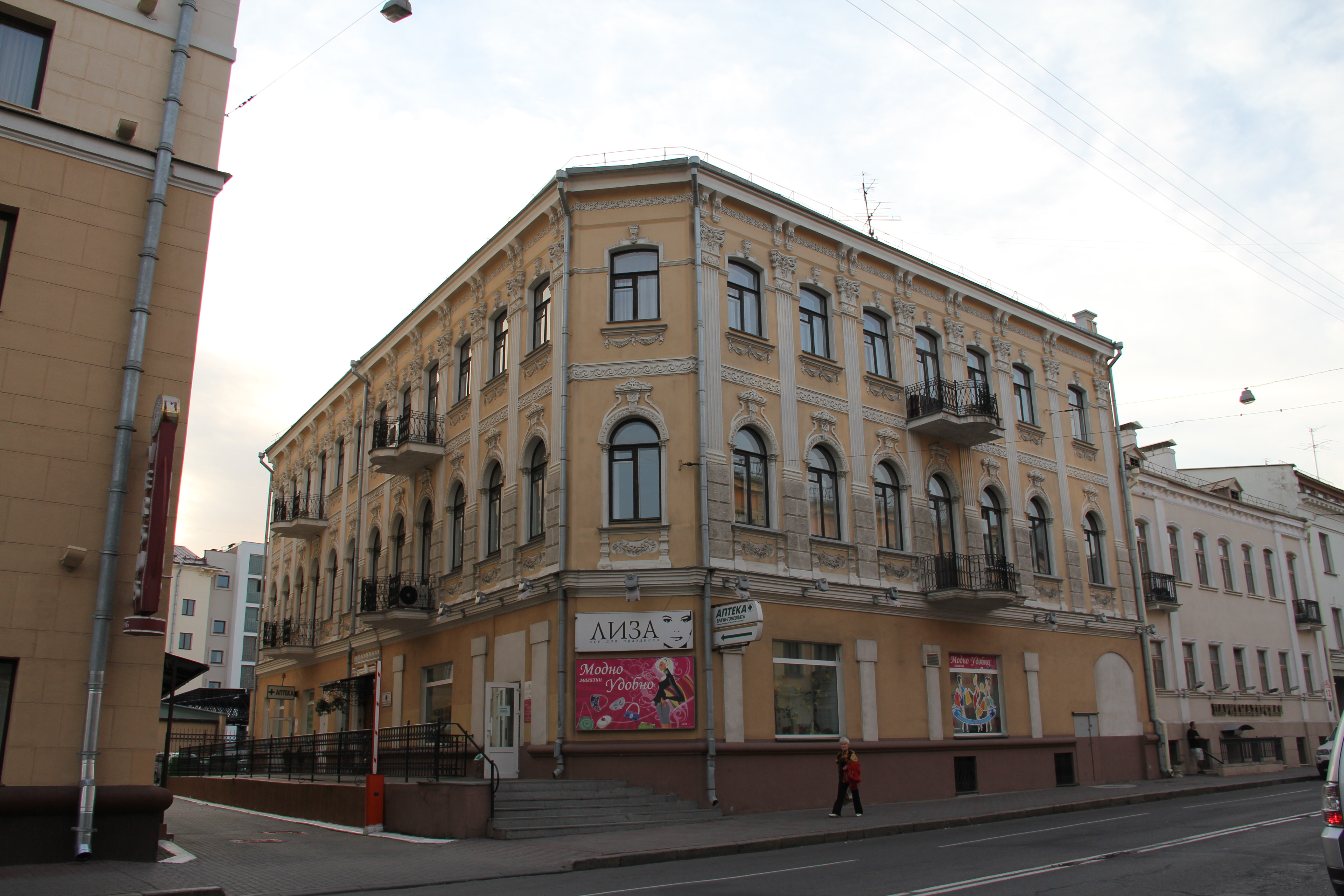 Беларуская (тарашкевіца): Будынкі. г. Менск This is a photo of Belarusian heritage monument. Reference number: 712Г000023 ( WLM)